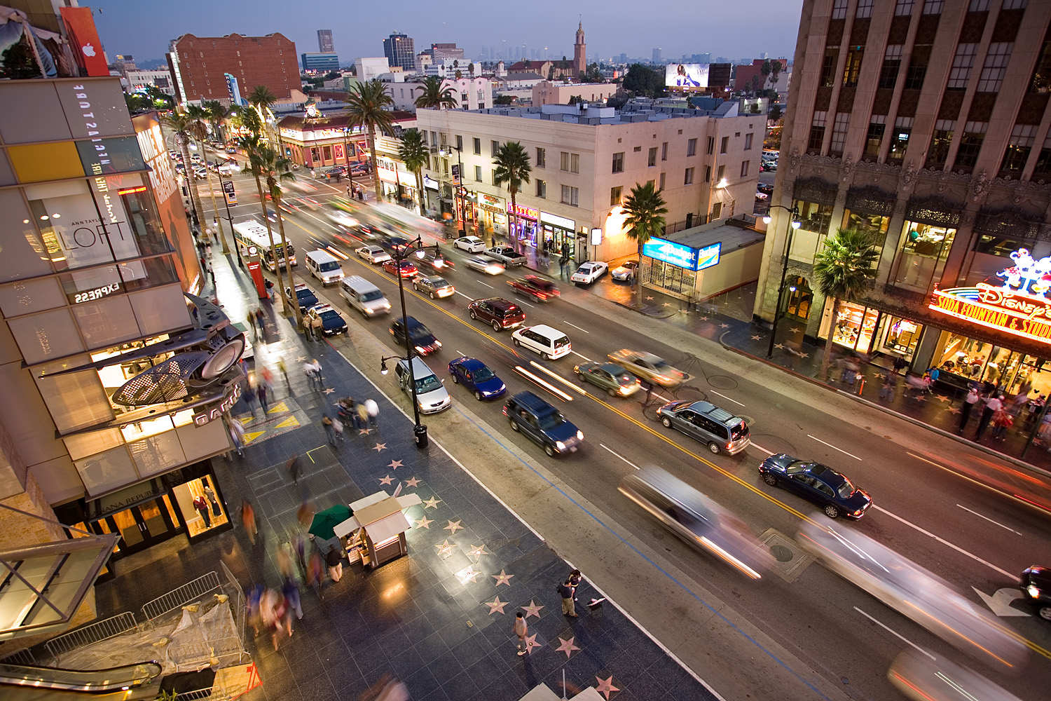 Hollywood Boulevard from the top of the Kodak Theatre looking in the direction of downtown in the background.